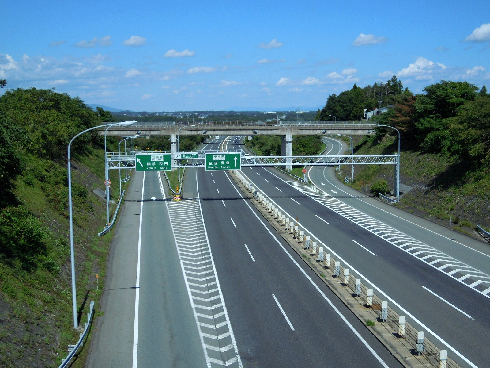 Kitakami Junction on the Tohoku and Akita Expressway in Kitakami City, Iwate Prefecture, Japan